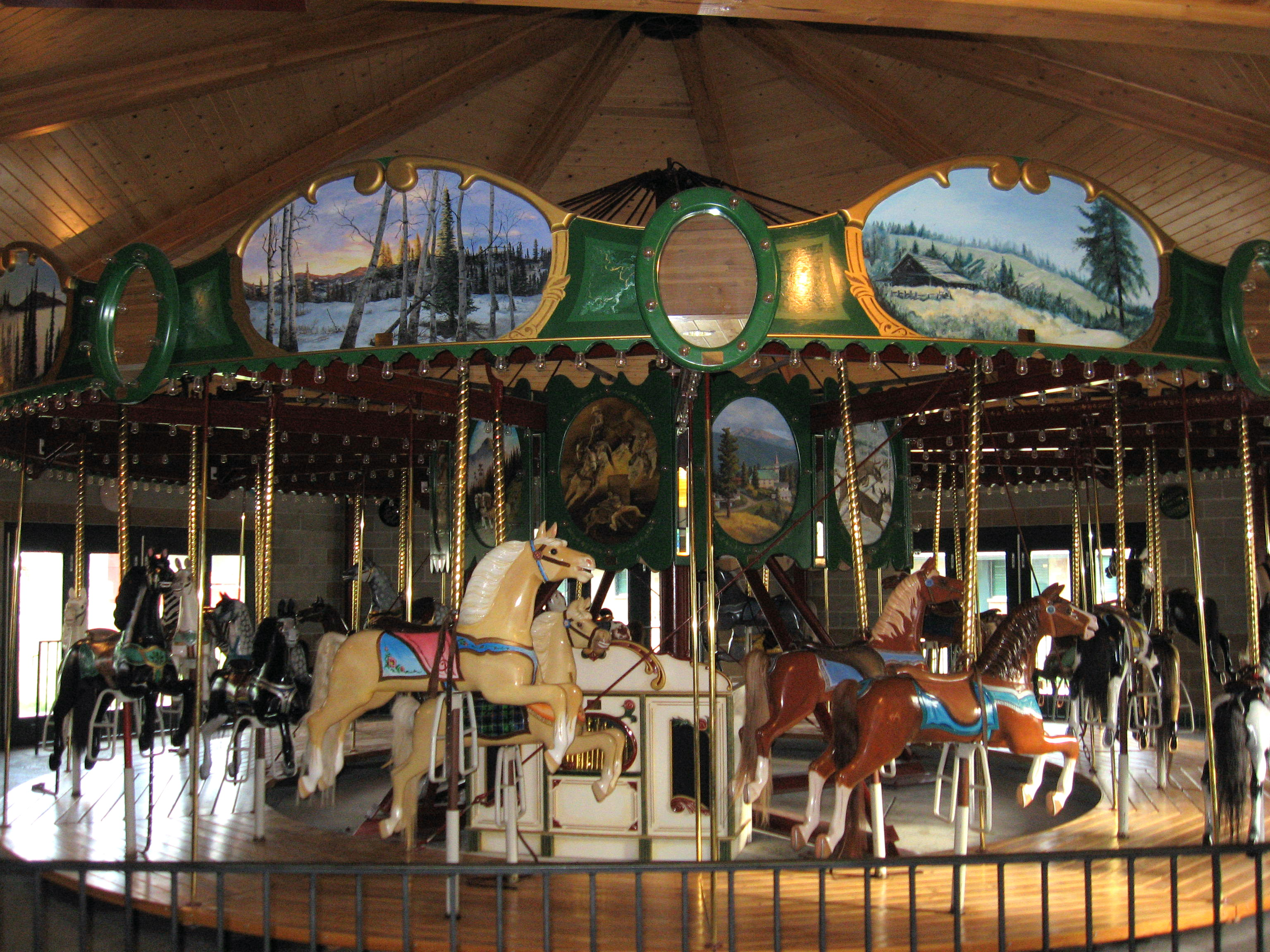 View of the Ferry County Carousel in its permanent home at The Ferry Co. Fair Grounds